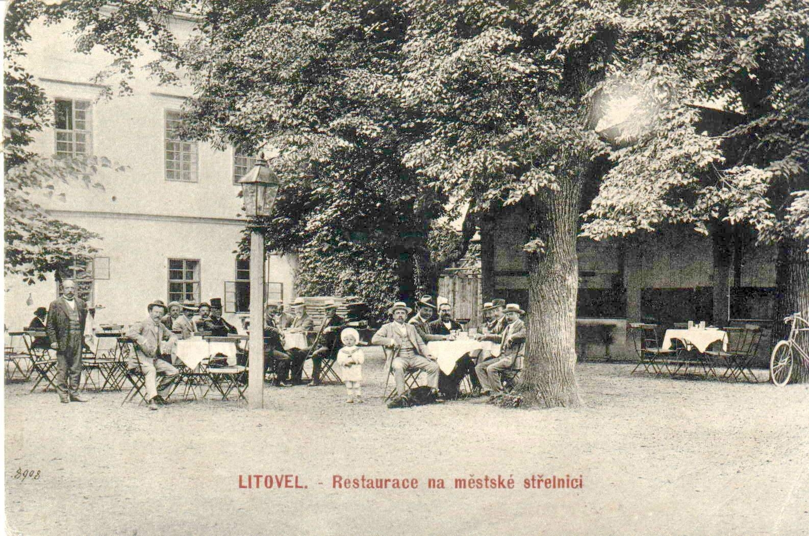 Restaurant near the former shooting range in Litovel.